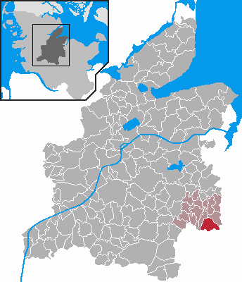 Locator maps of municipalities in Schleswig-Holstein - District Rendsburg-Eckernförde